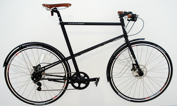 Skeppshult Z from Skeppshultcykeln, photo from the exhibition Cyklar! at Vandalorum art centre, Värnamo, Sweden, 23rd July 2011